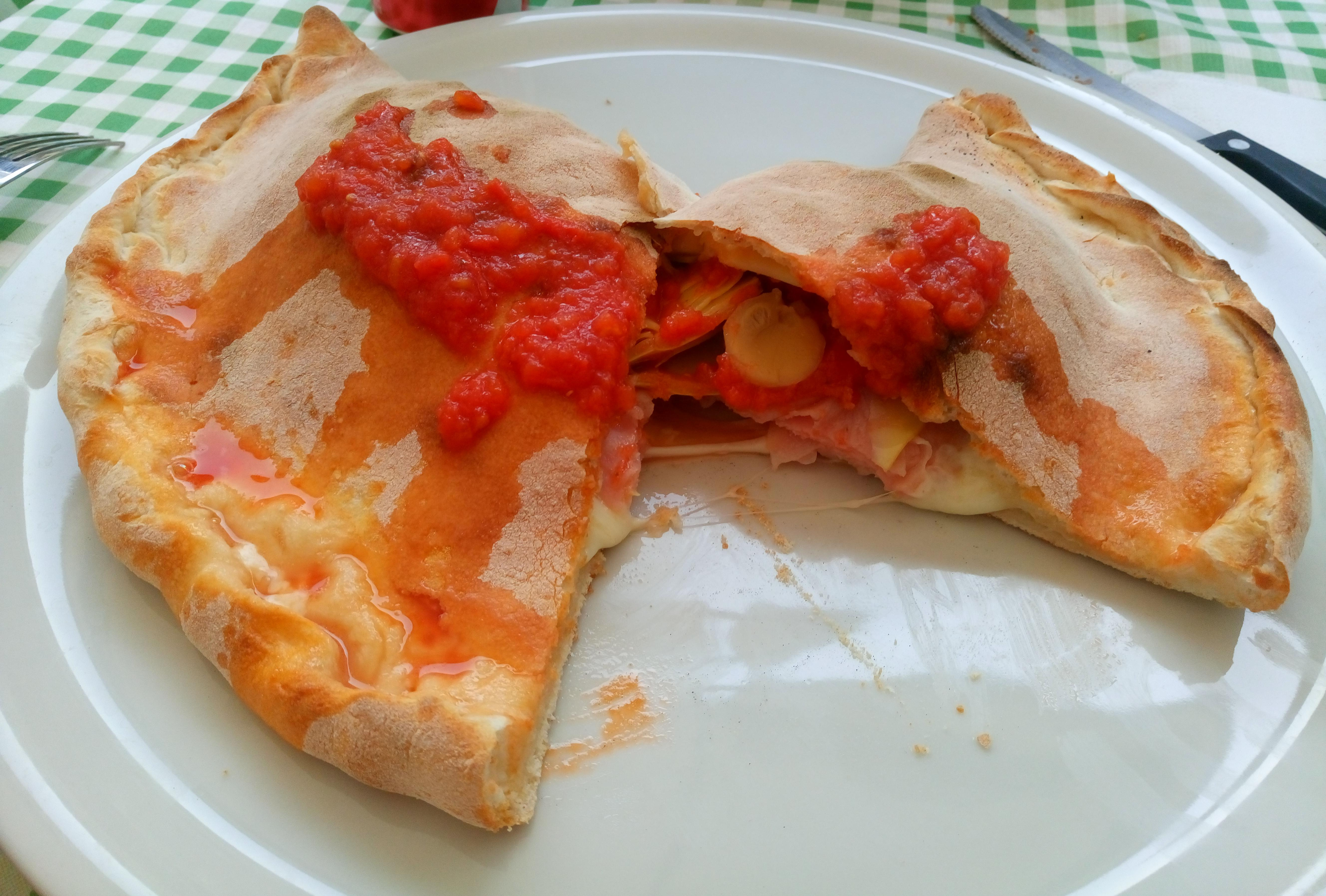 Calzone at Pizzeria 51, Esino Lario.